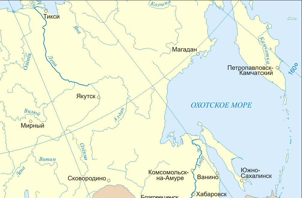 Map of the Sea of Okhotsk — on Pacific coast of Far Eastern Russia.